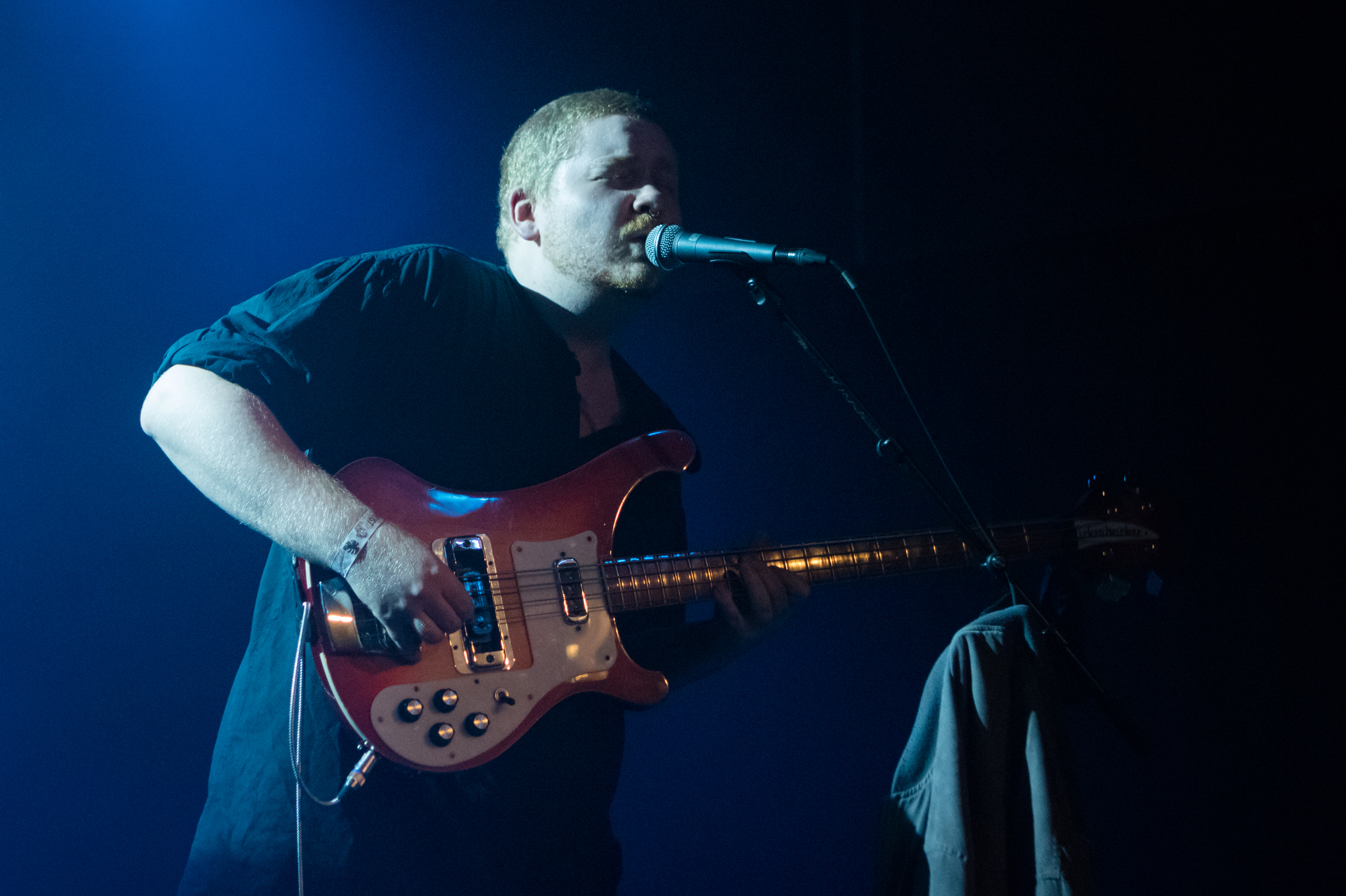 Her's at Way Back When Festival 2017 in Dortmund